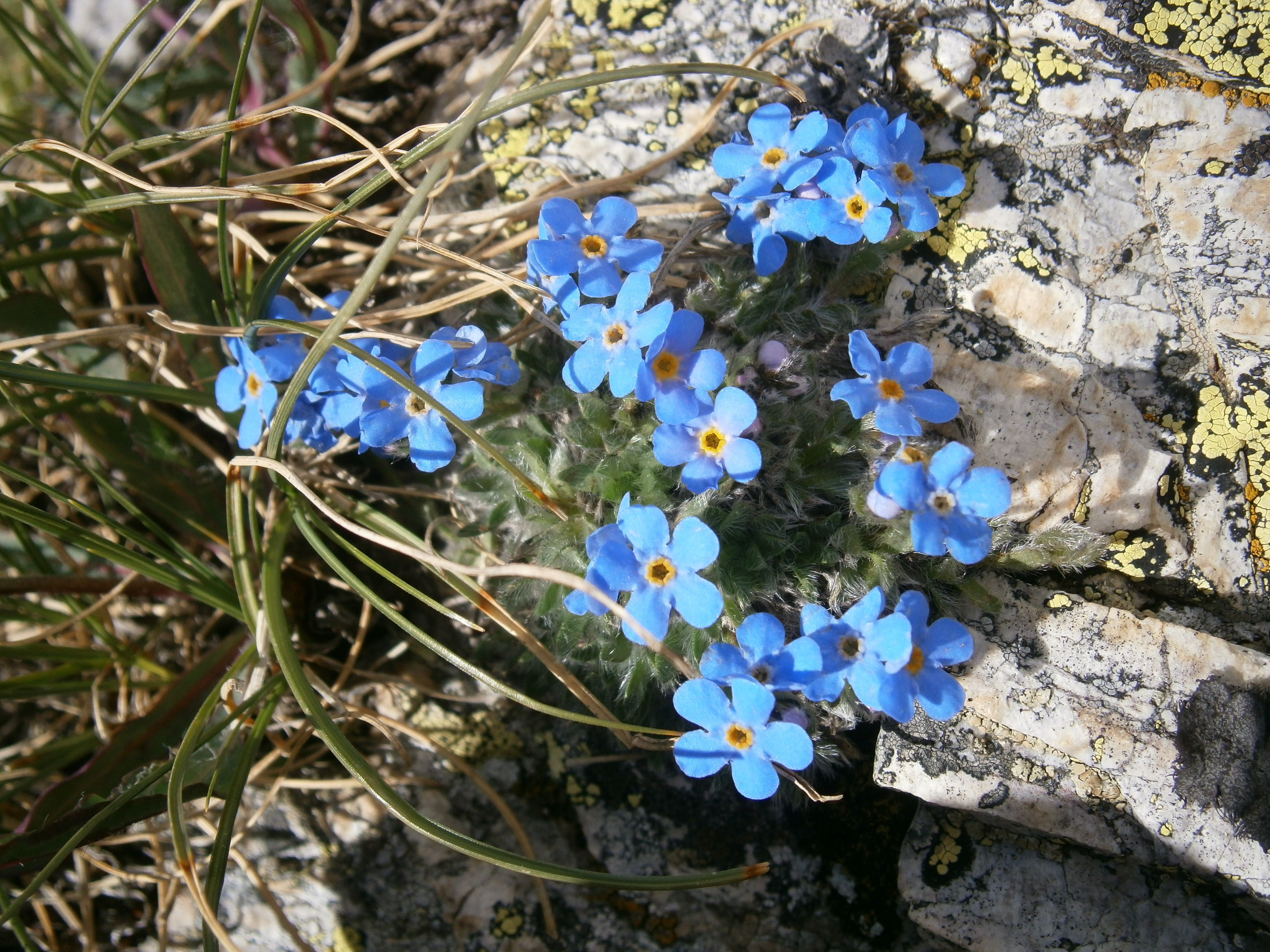 Eritrichium nanum in the Grandes Rousses